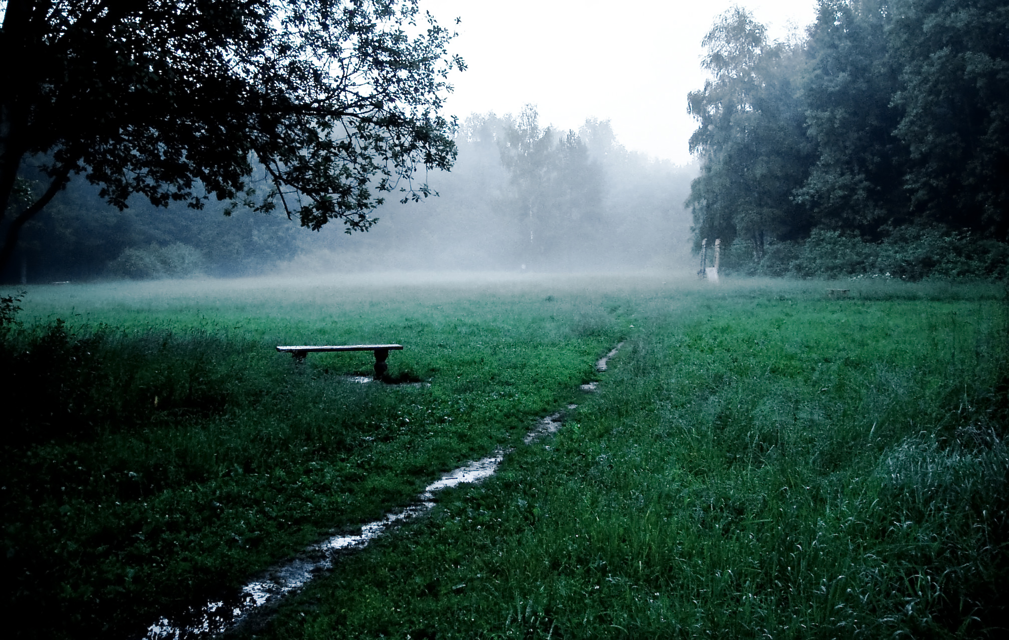 Morning mist, taken in Zelenograd, Moscow, Russia @ July 12, 2003